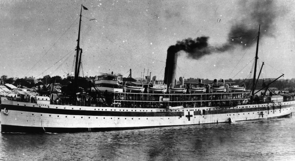 Kyarra (ship) Hospital ship 'Kyarra' leaving Brisbane.